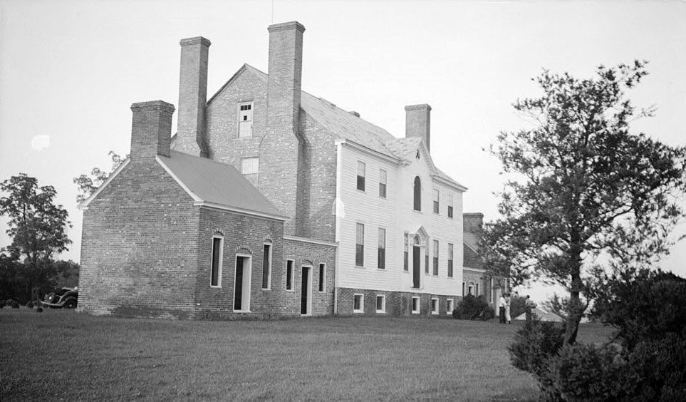 1937 South Elevation Rose Hill, Rose Hill Road, Port Tobacco vicinity, Charles County, Other Title: Dr. Gustavus Brown House. Built late 18th Century, restored 1937. Repository: Library of Congress, Prints and Photograph Division, Washington, D.C. 20540 USA. Survey number: HABS MD-58. Call number: HABS MD,9-PORTO.V,1 "Frame (nogged with brick), two stories and attic with brick ends containing four outside chimneys. Formal composition with wings. South elevation is 5-bays wide with central pavilion containing door and arched window on second floor, the whole surmounted by an open pediment. Interio plan is very regular with a central hall."